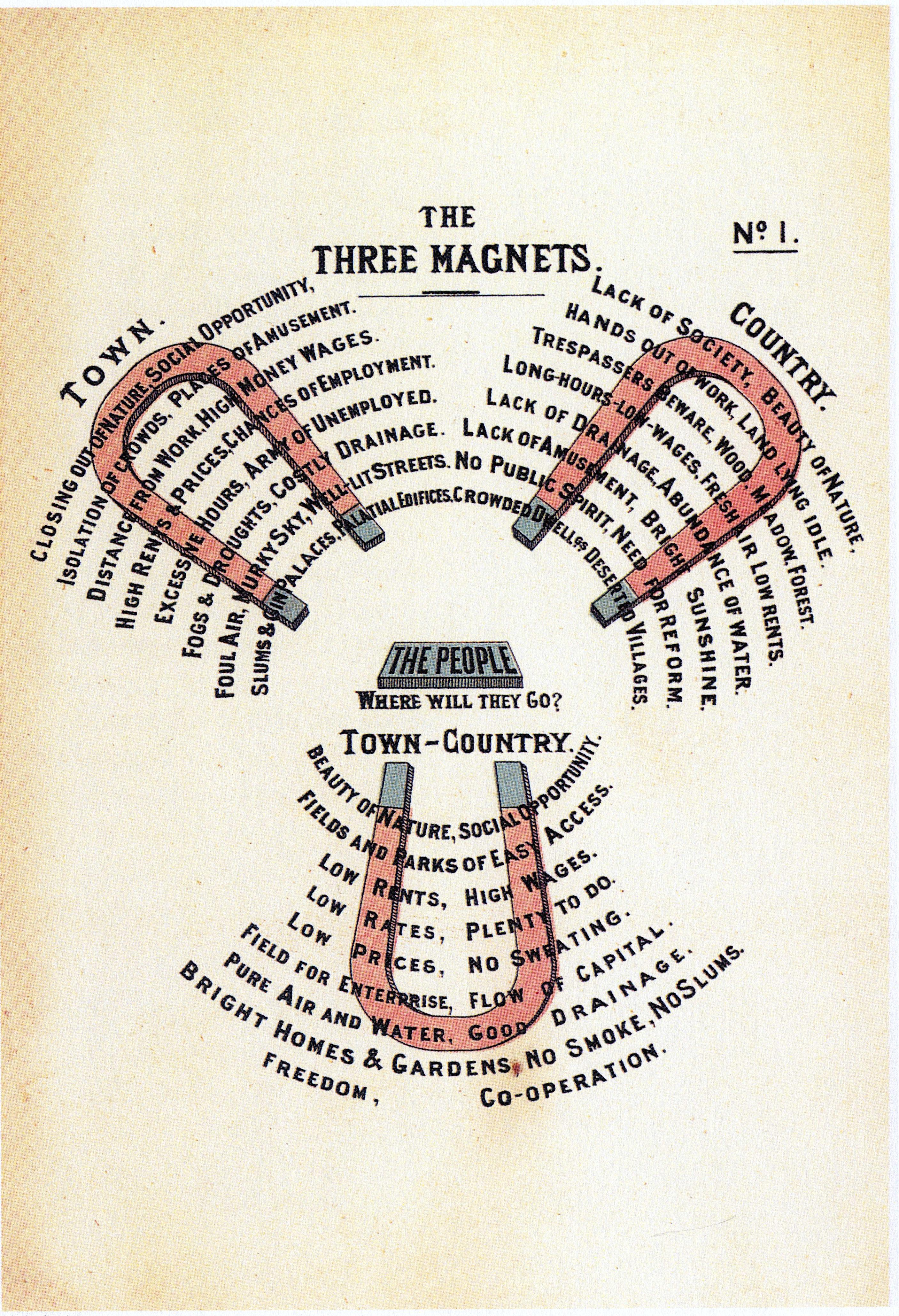 Howard, Ebenezer, To-morrow: A Peaceful Path to Real Reform, London: Swan Sonnenschein & Co., Ltd., 1898.